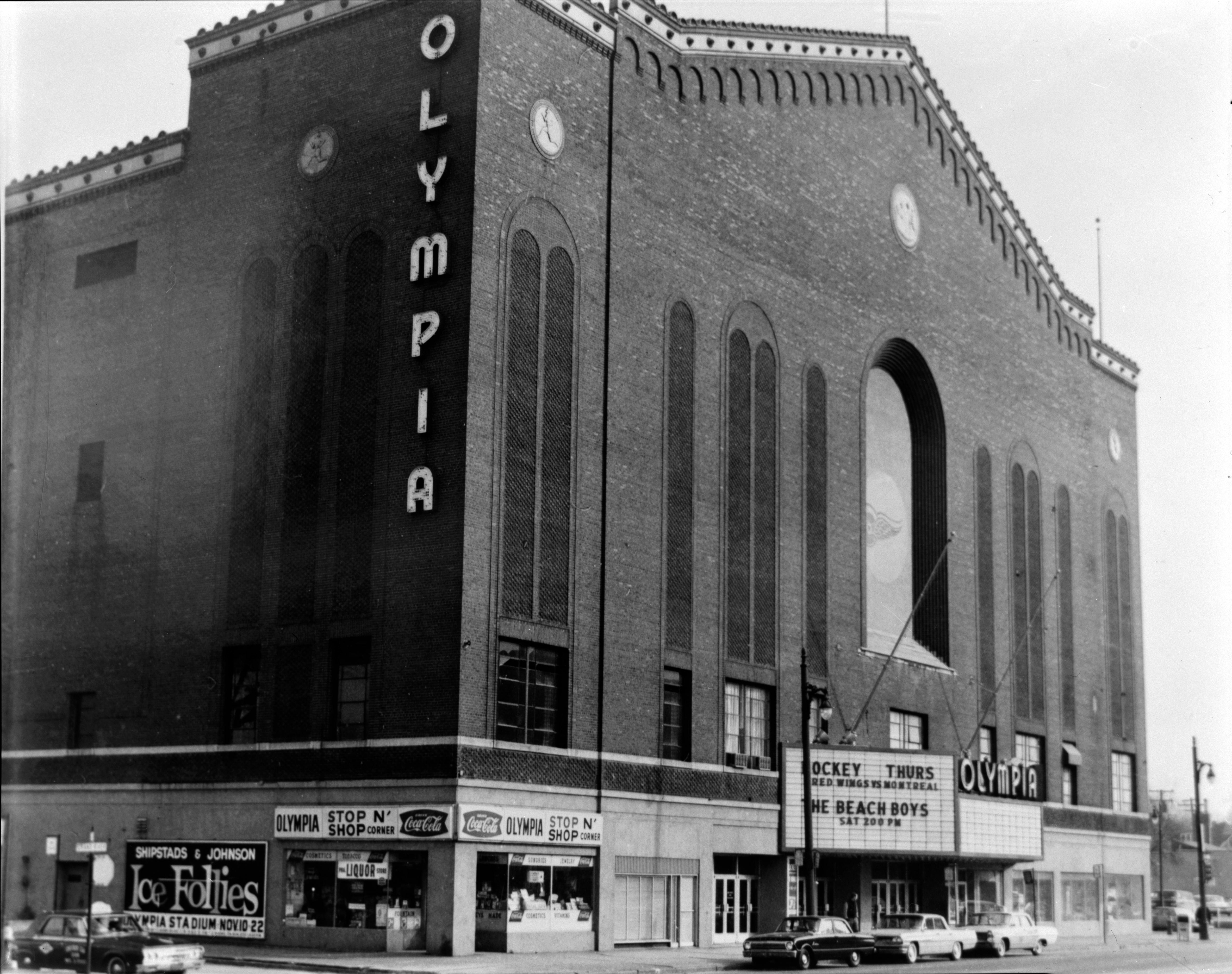 Olympia Arena (demolished) formerly at 5920 Grand River Avenue, Detroit, MI Opened in October, 1927, Closed in December, 1979 Designed by C. Howard Crane. Home Ice for the Detroit Red Wings From the Historic American Building Survey at the Library of Congress.